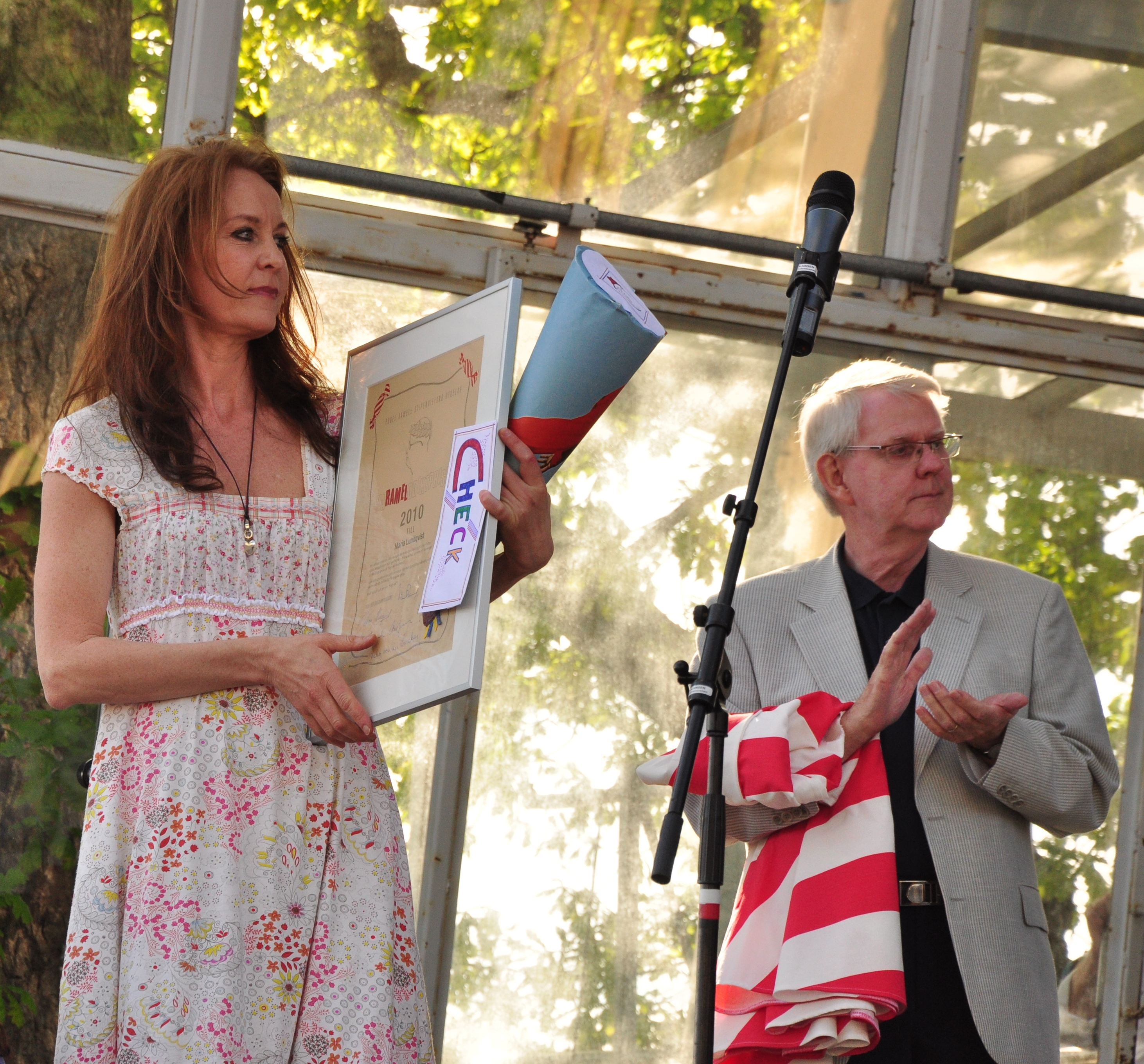 Maria Lundqvist gets Swedish grant in memory of Povel Ramel - Karamellodiktstipendiumet 2010.